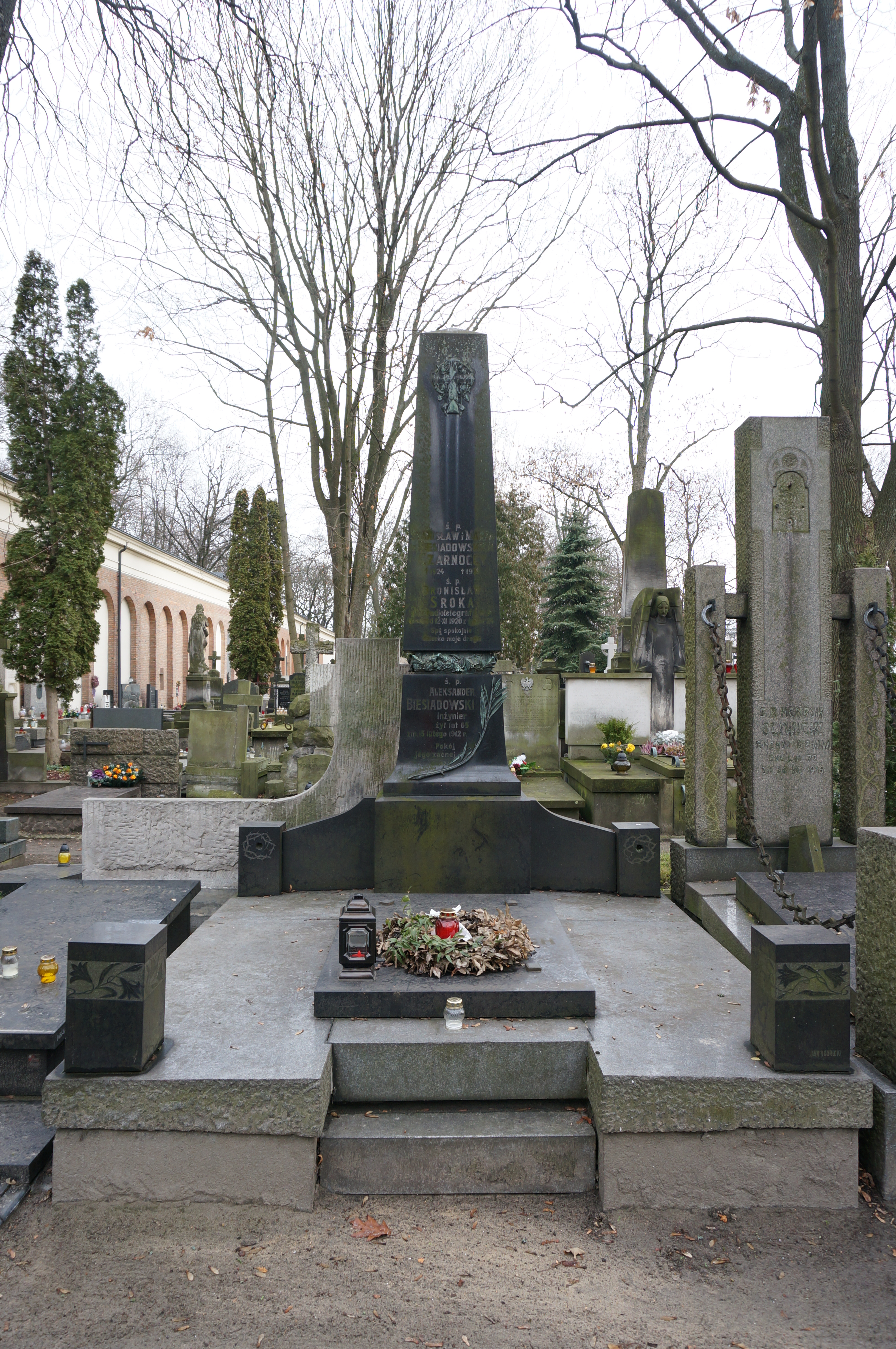 The grave of Wilhelm Sroka at the Powązki Cemetery (section 168, row 6, grave 6, 7)